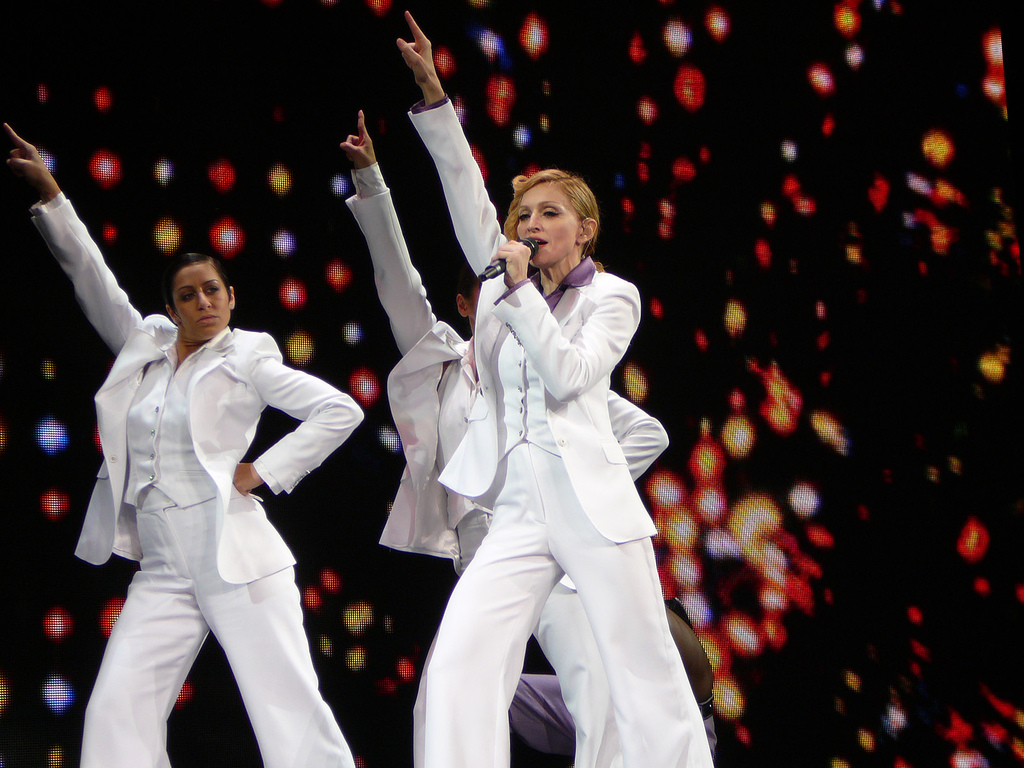 Picture taken at the concert